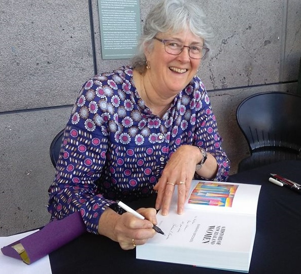 Barbara Brookes at a book signing in Christchurch, New Zealand, August 2016